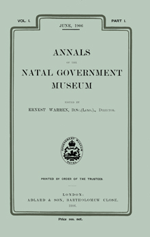 Annals of the Natal Government Museum 1906 Vol. 1, Part 1 cover